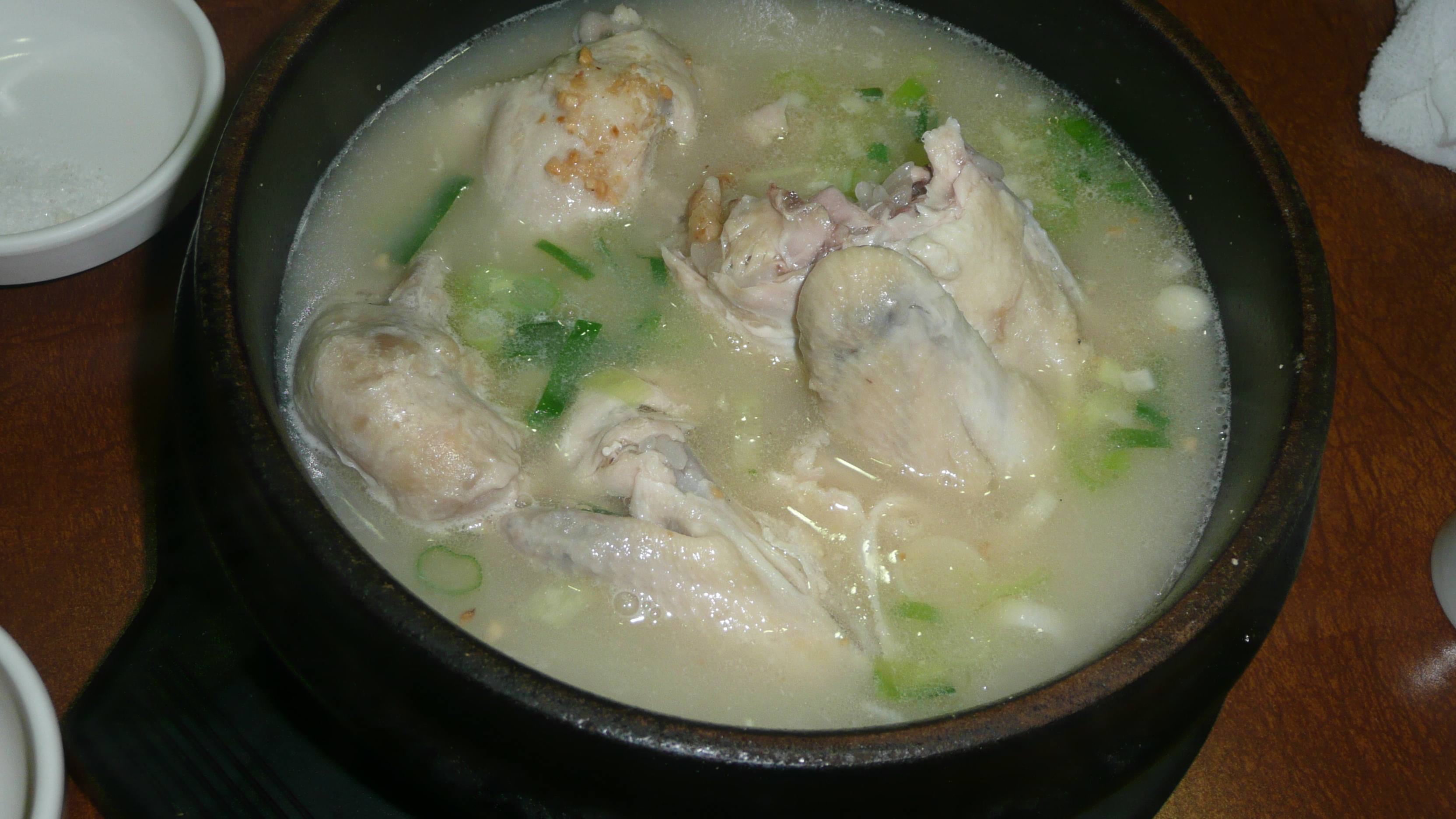 Samgyetang - Hühnersuppe mit Ginsengwurzel